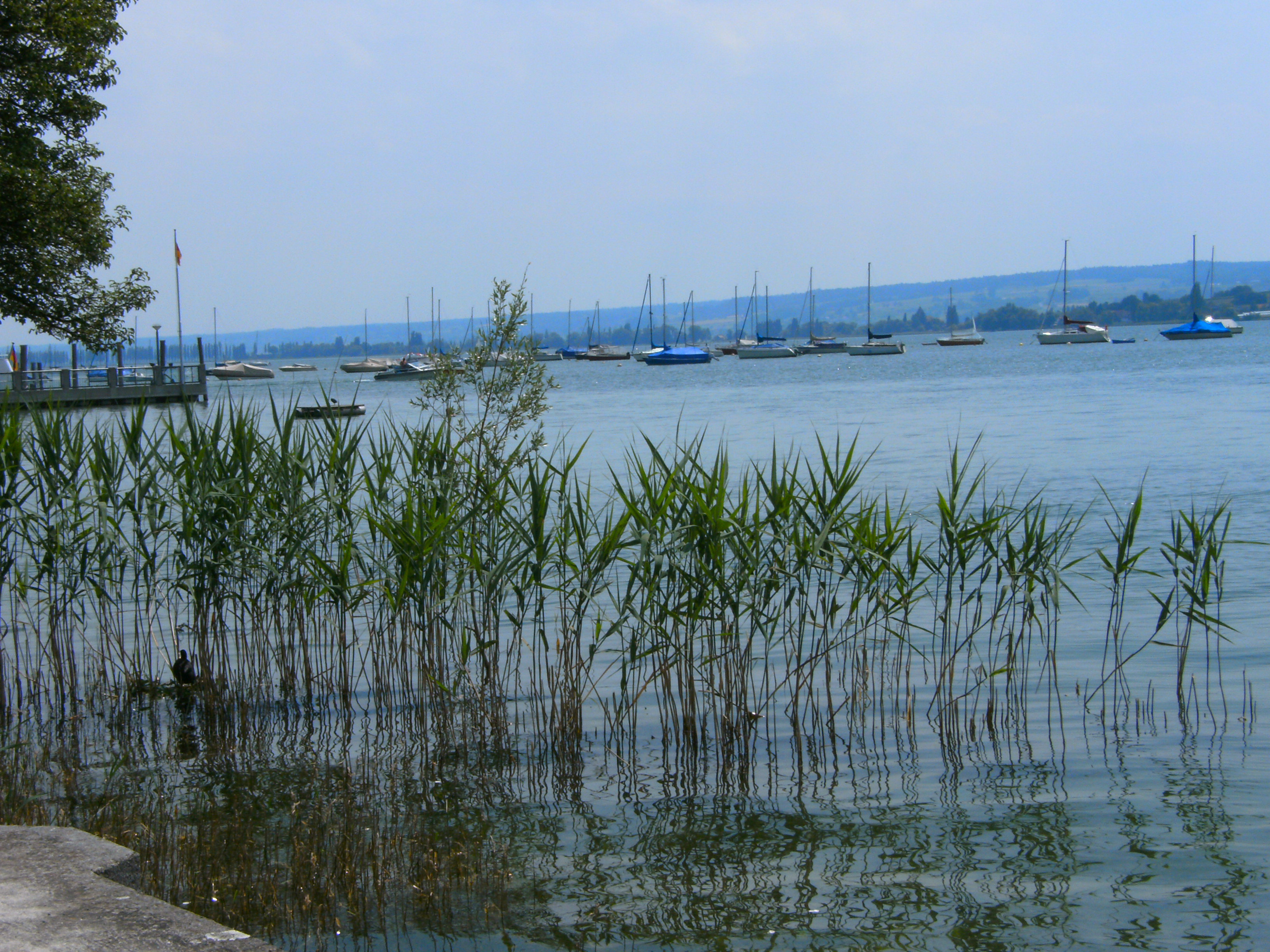 Summer scenery in Allensbach, Lake Constance, Germany towards Insel Reichenau.